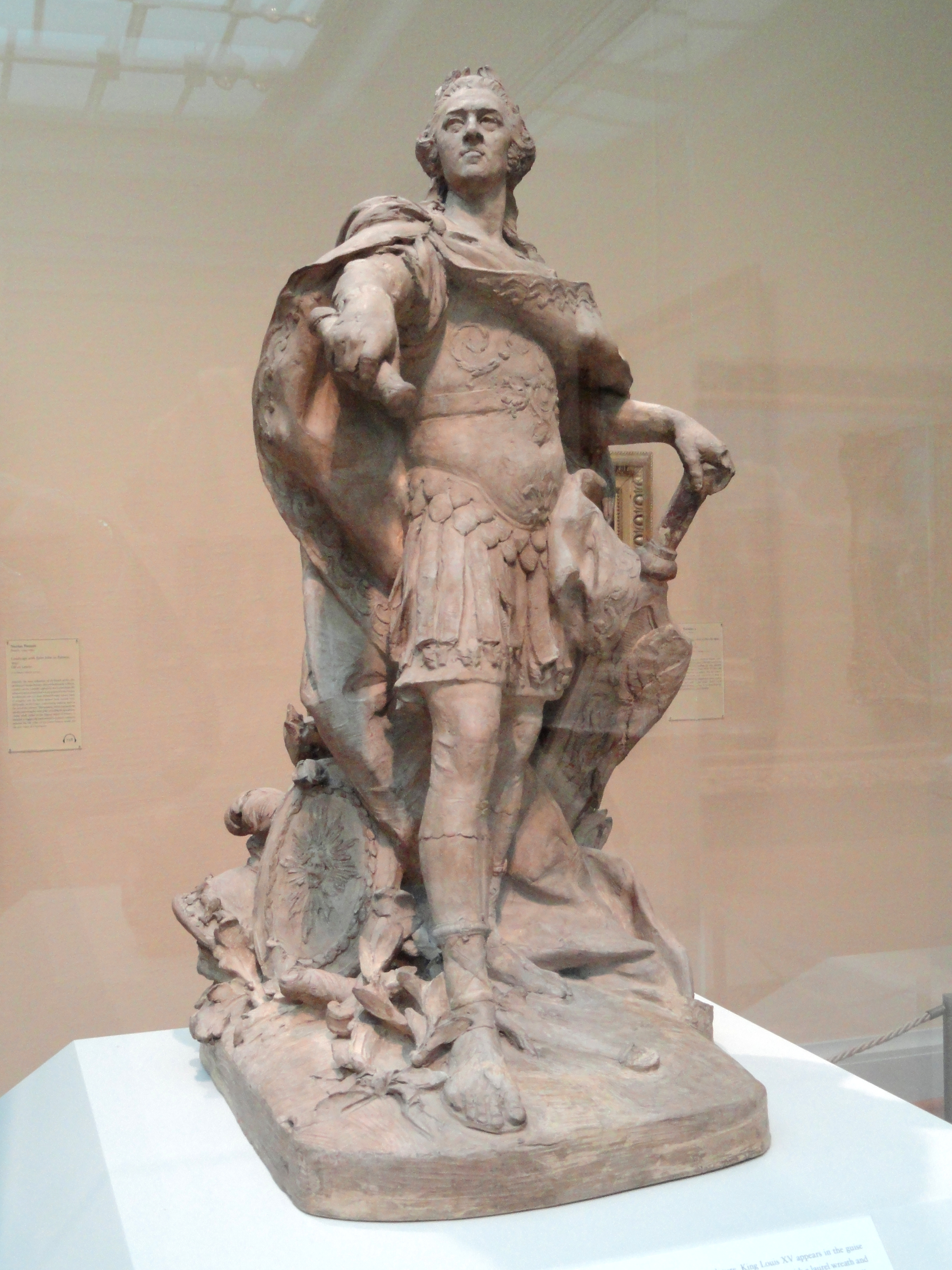 Exhibit in the Art Institute of Chicago, Chicago, Illinois, USA. This artwork is in the public domain because the artist died more than 70 years ago.